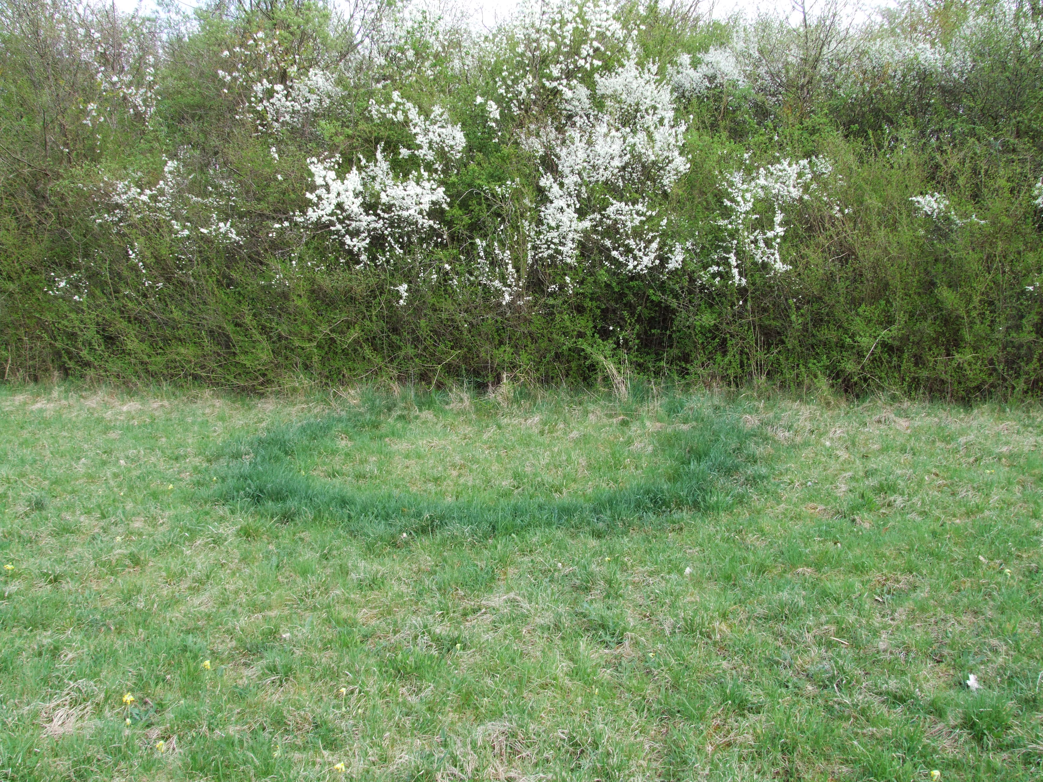 Fairy rings in a meadow on the mountain Sperrberg, in the German village Niedergailbach